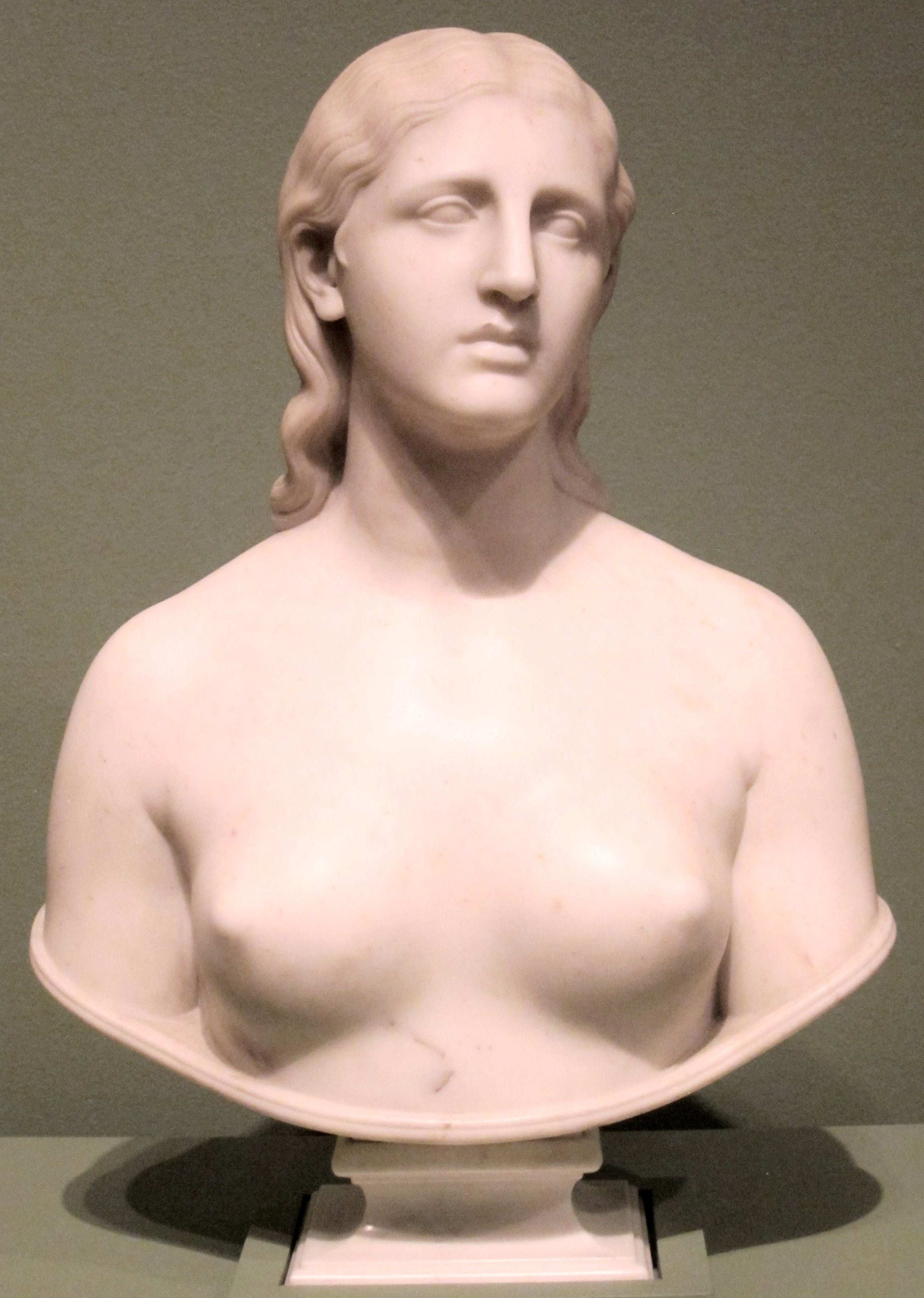 Eve Disconsolate, marble sculpture by Hiram Powers, after 1841, Dayton Art Institute